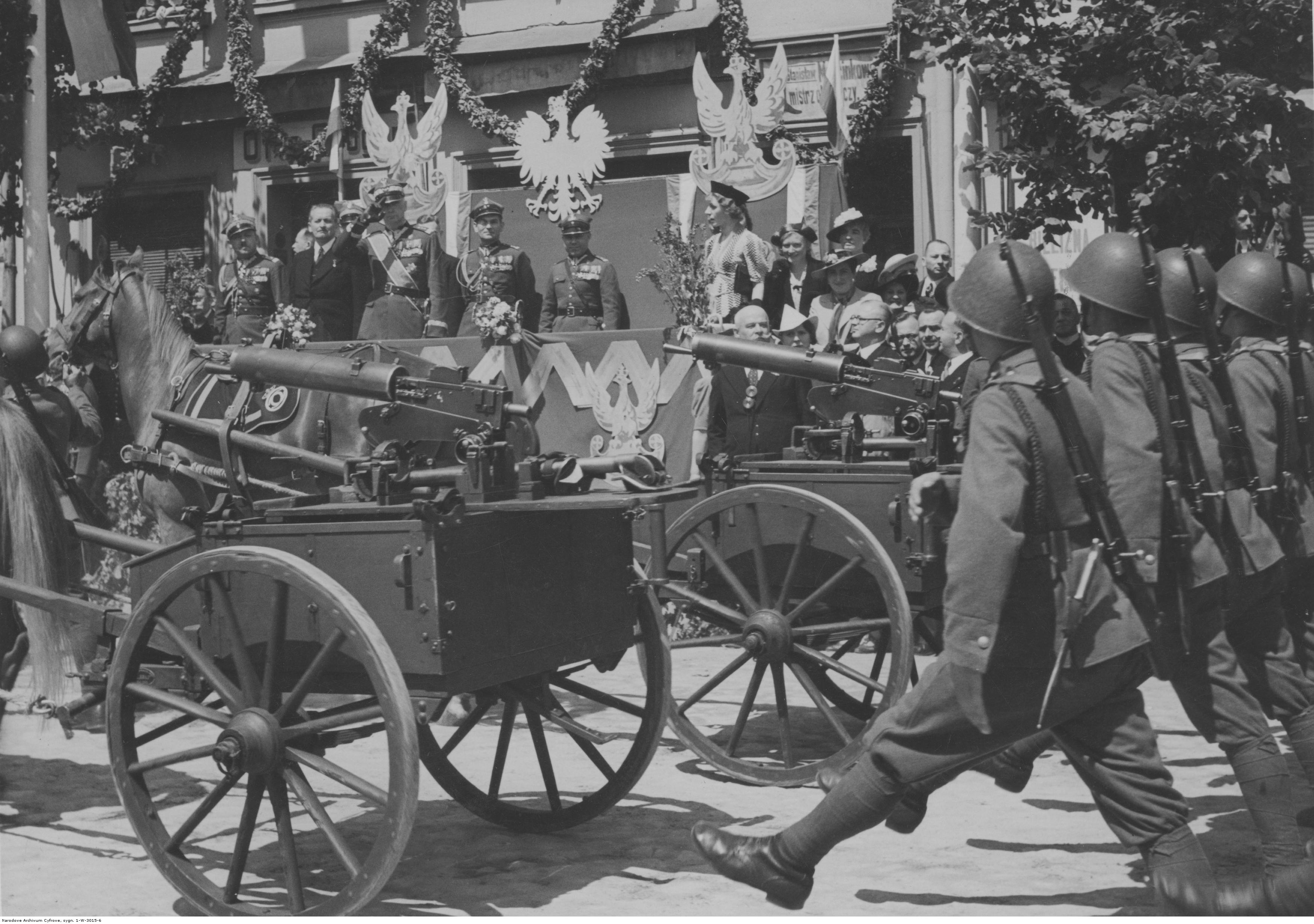 Polish wz.30 HMGs of the 57th Infantry Regiment, funded by the town of Nowy Tomyśl. Gen. Kazimierz Sosnkowski watches a parade.